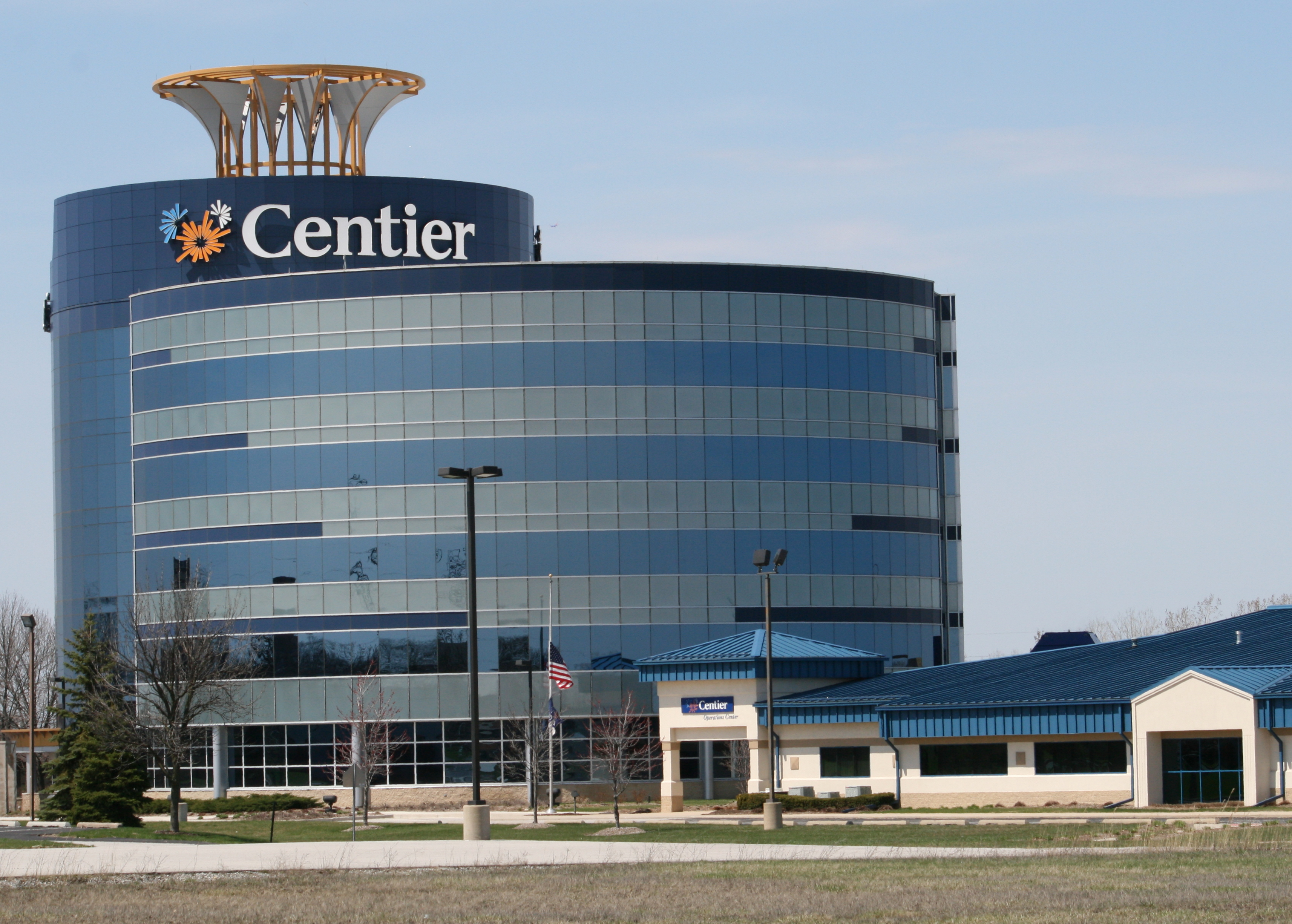 Centier Bank, a family owned bank, in Merrillville, IN